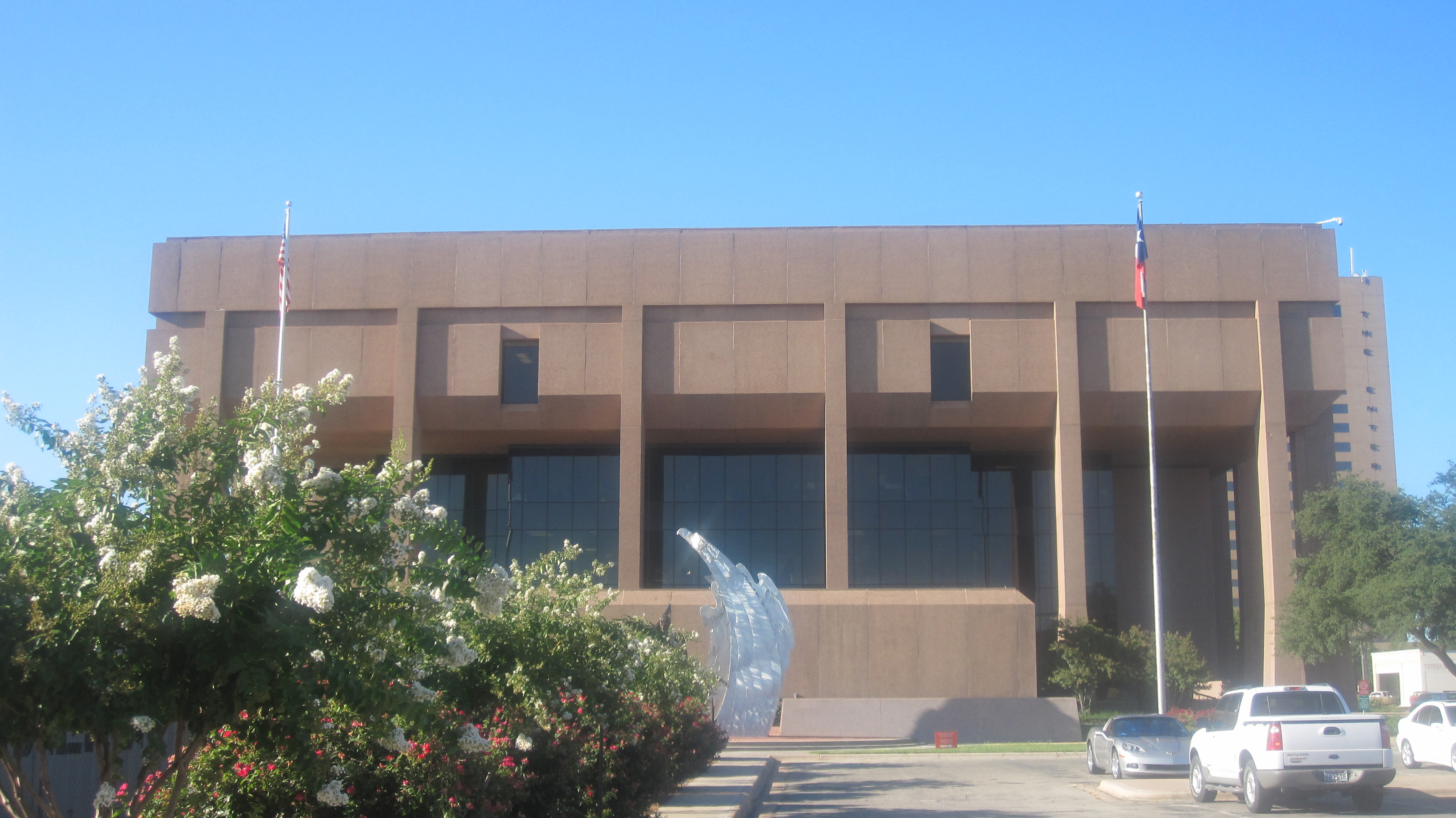 Taylor County Courthouse. I took photo with Canon camera in Abilene, TX.